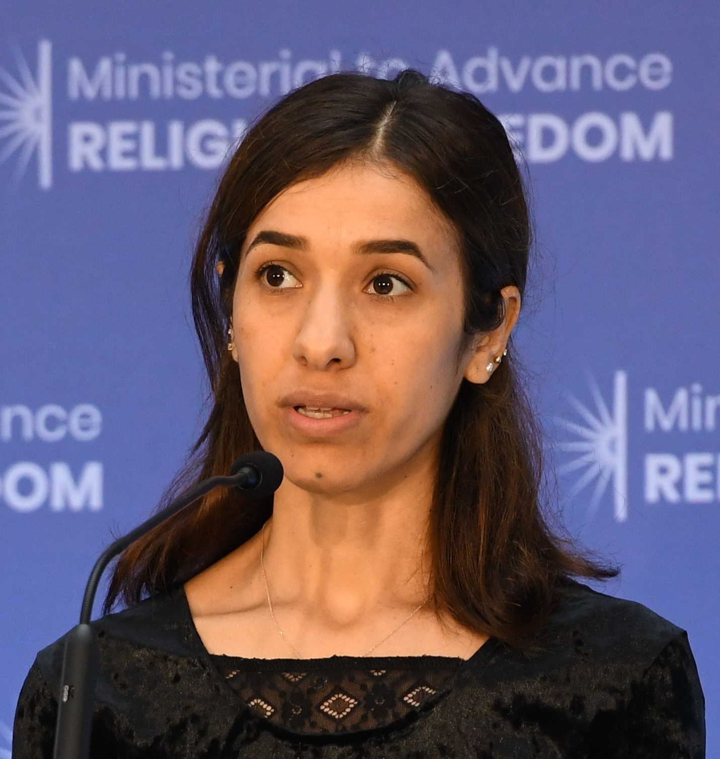 Nadia Murad, a prominent Yezidi human rights activist and survivor of ISIS gender-based violence, delivers remarks at the Ministerial to Advance Religious Freedom at the U.S. Department of State in Washington, D.C.